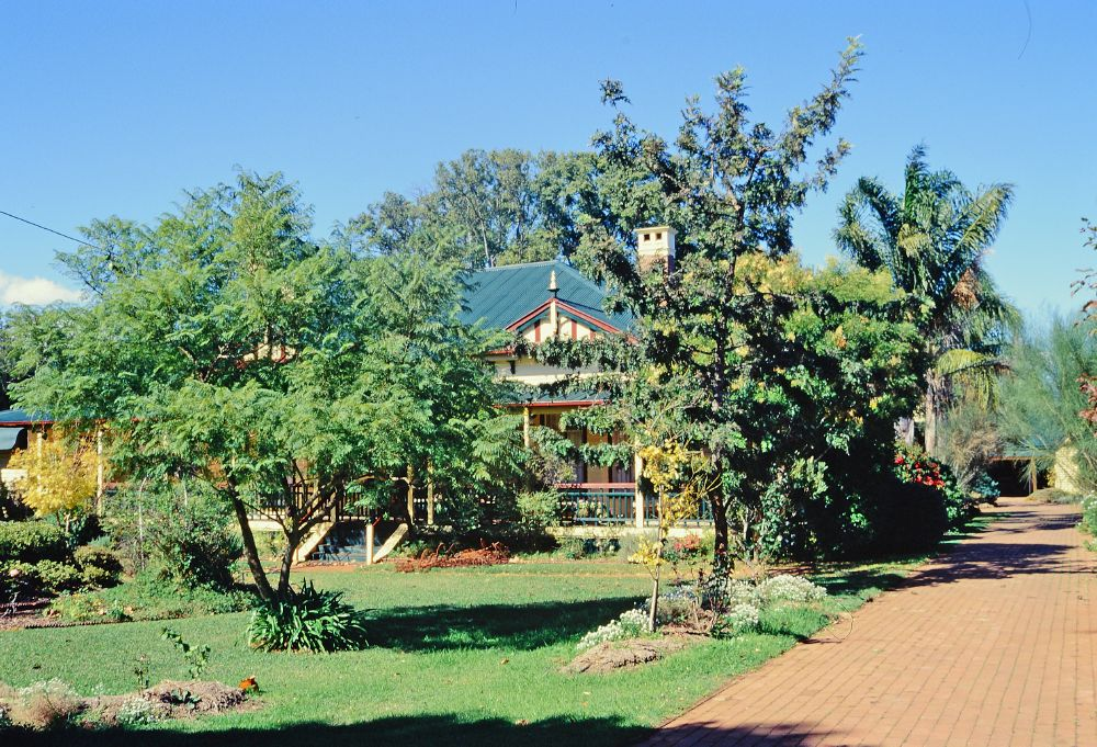 Elphin (2000)